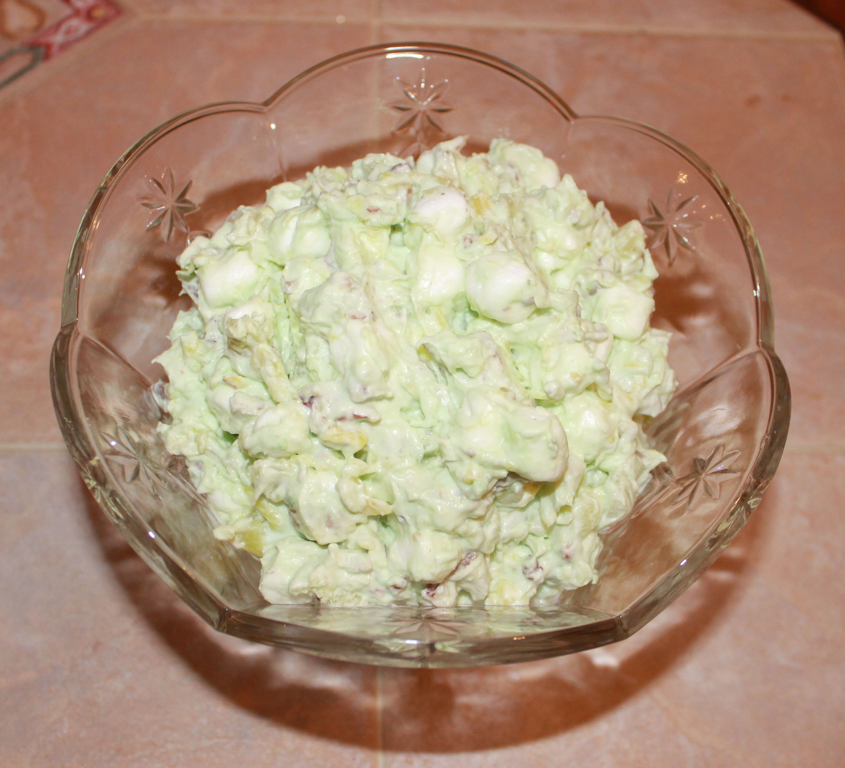 Watergate salad in glass dish